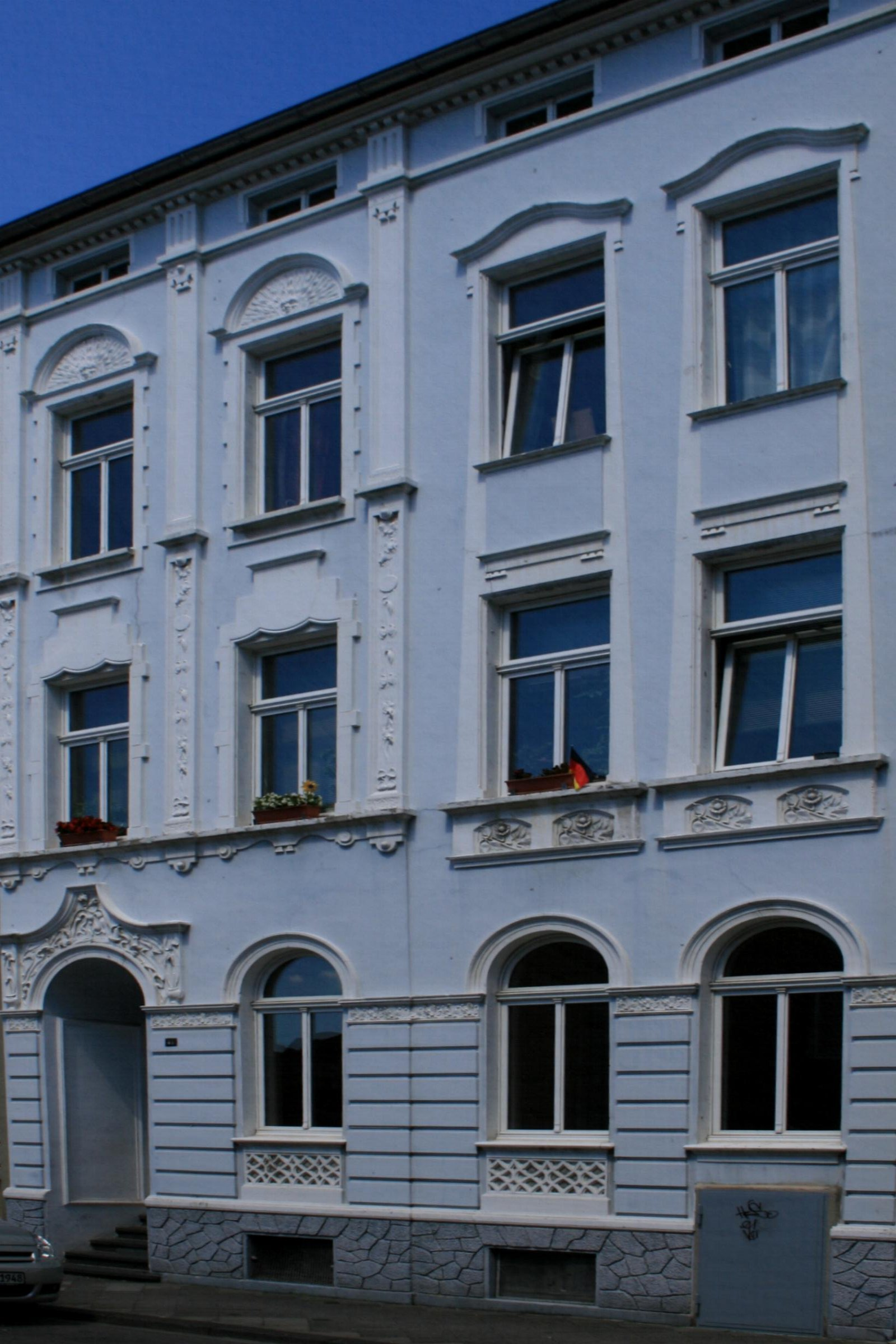 Cultural heritage monument No. M 003 in Mönchengladbach